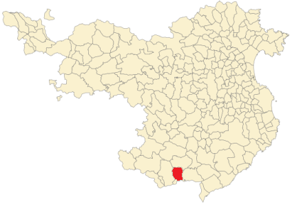 Messanas